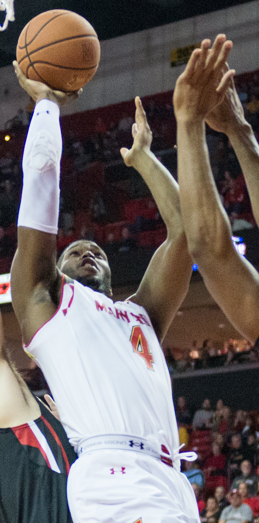 Forward Robert Carter Jr. hits a shot during Maryland's game vs St. Francis at Xfinity Center on Dec. 4, 2015.